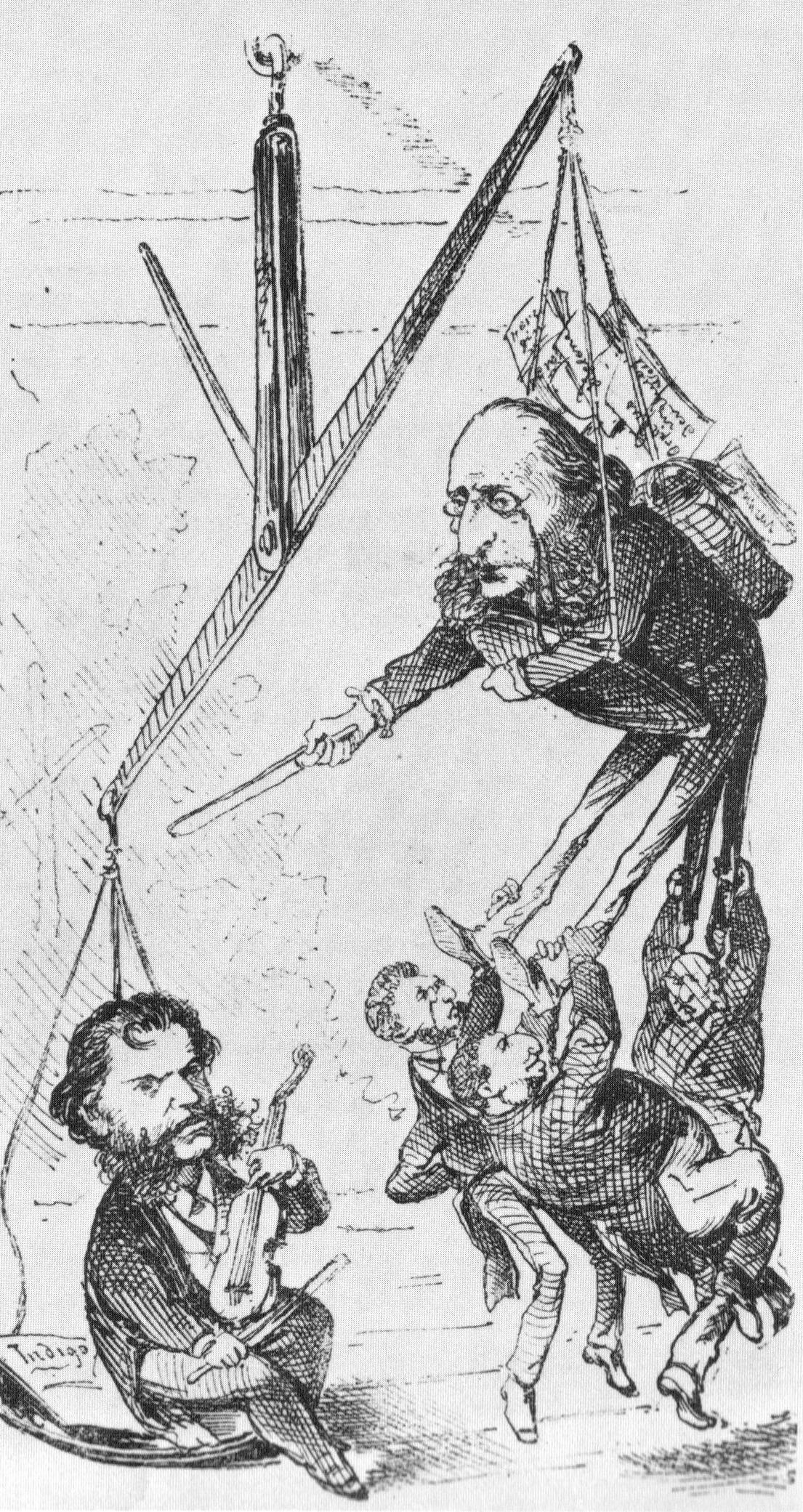 Cartoon, published by the weekly journal "Der Floh" in 1871. It shows the two composer Jaques Offenbach and Johann Strauss II, both struggling about the audience.